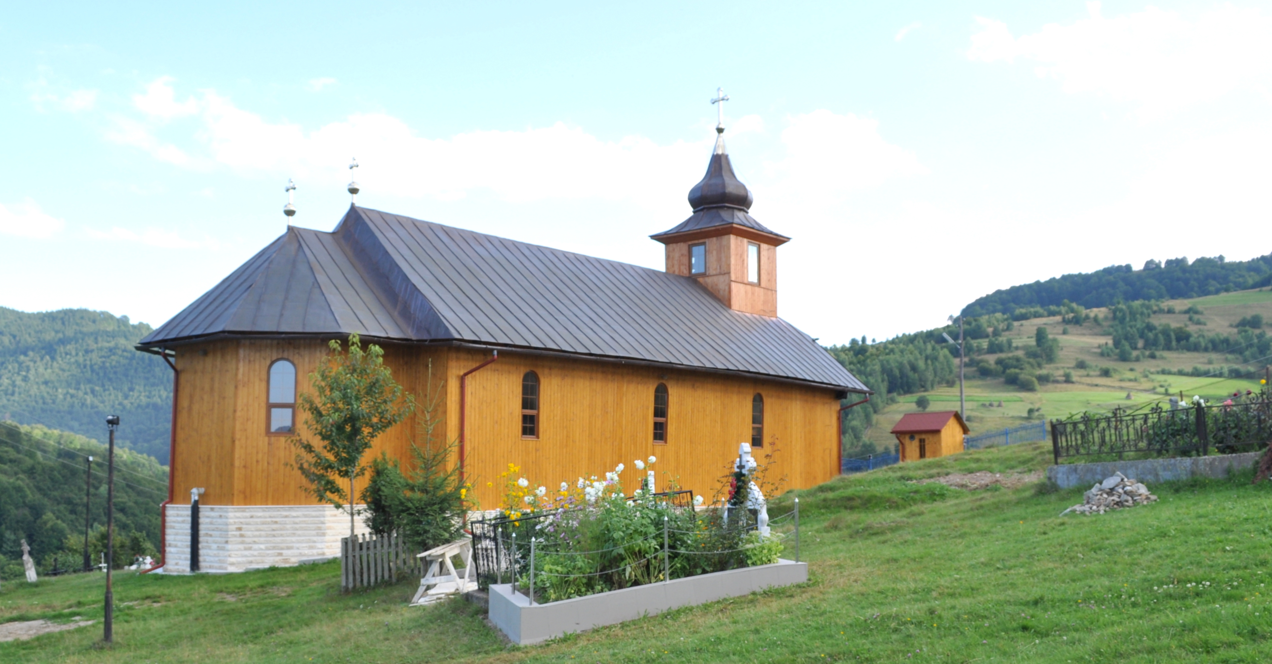 The wooden church in Răchițele, Cluj county, Romania